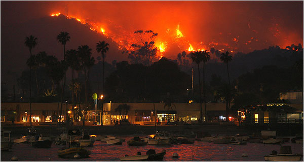 A fire looms over the City of Avalon in May 2007.